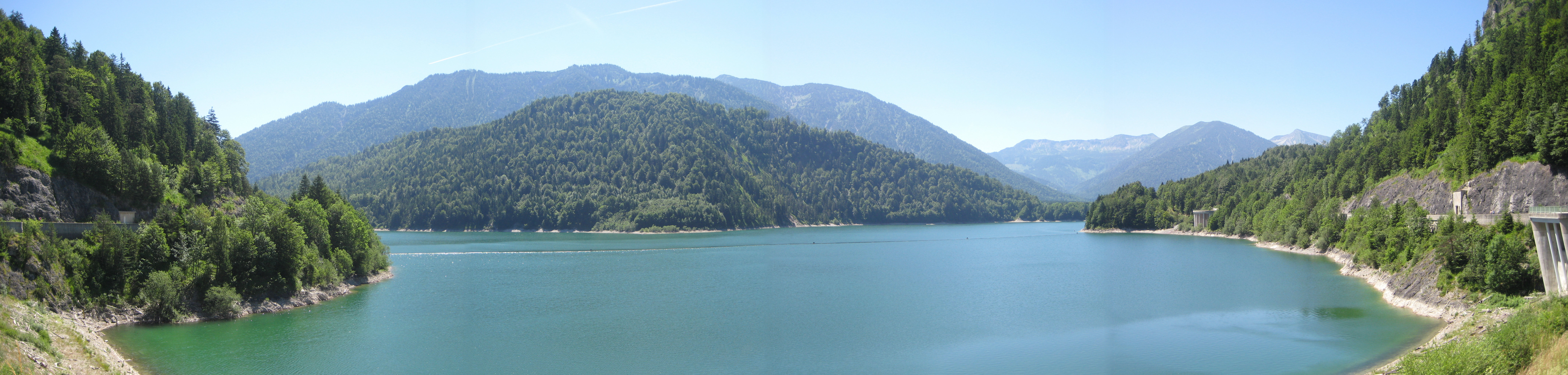 Sylvenstein Dam This image was created with Hugin